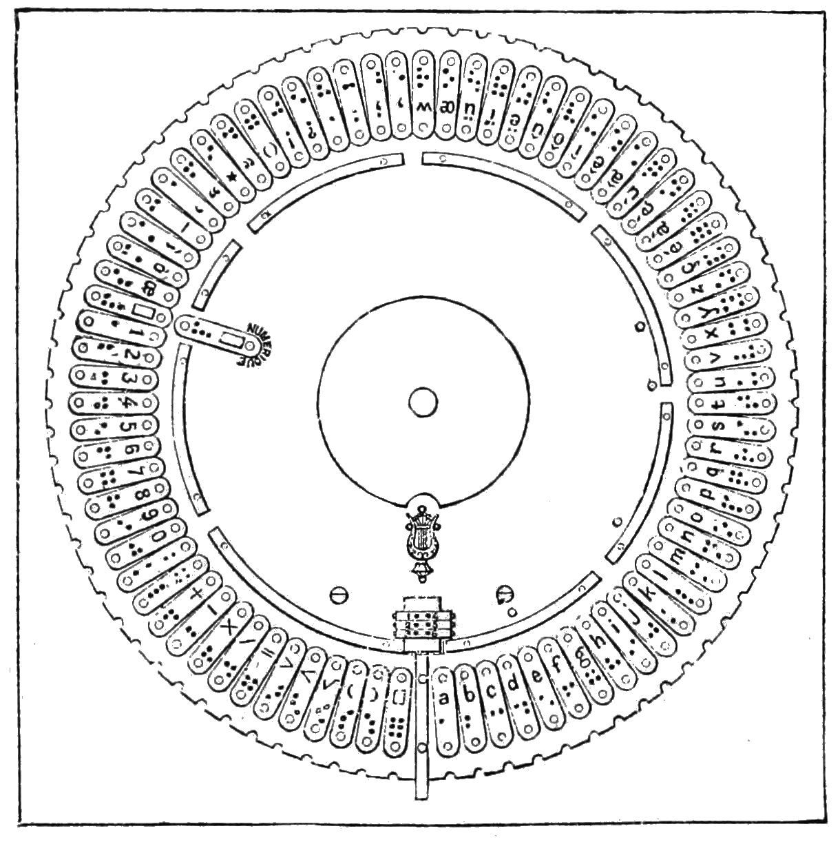 Plate of the Mauler machine